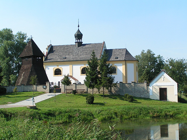 Lučice (part of Chlumec nad Cidlinou town, Czech Republic) - St Benedict church